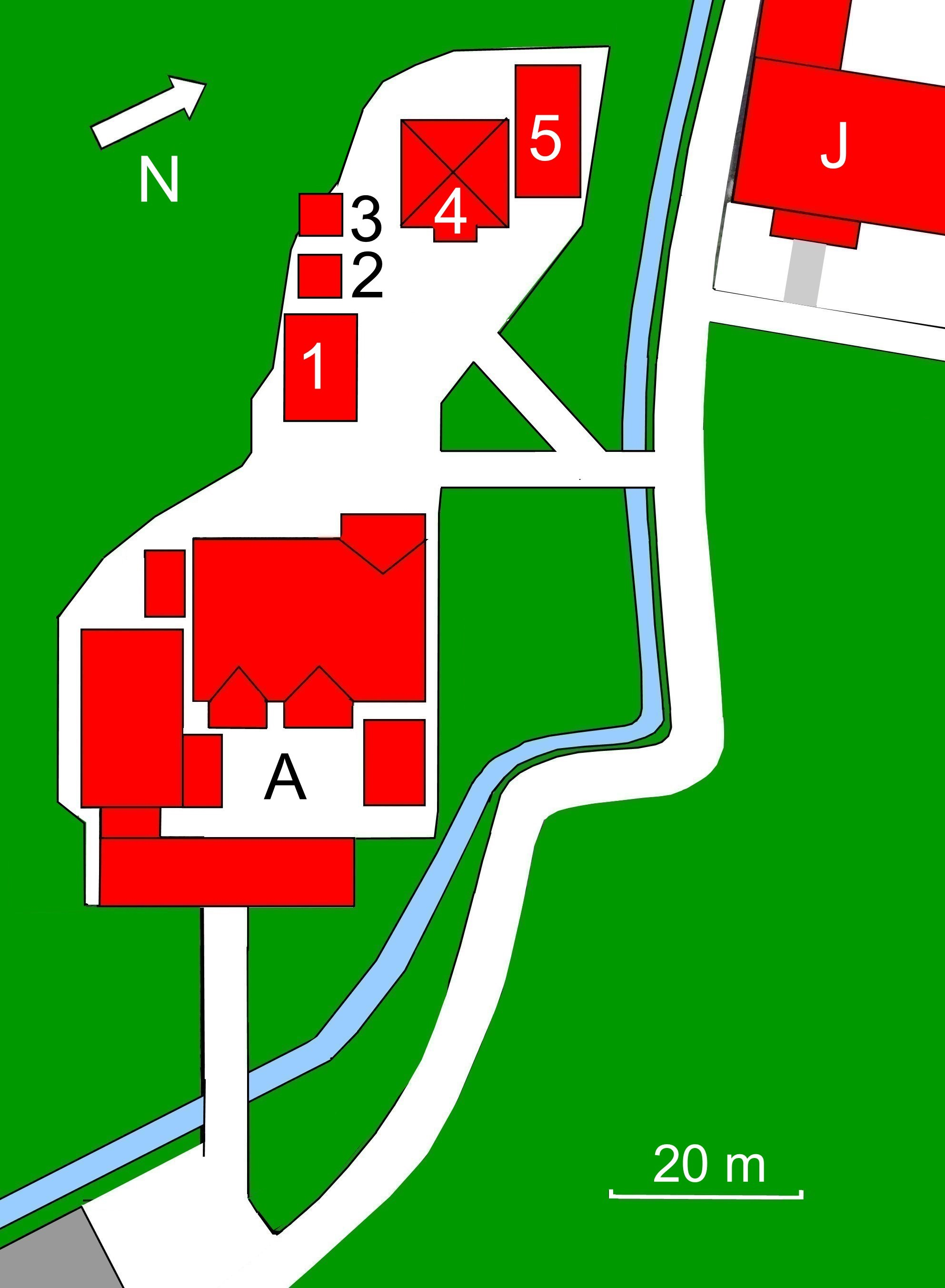 Layout of Ruri-ji (Hyôgo) temple